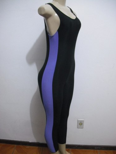 lycra overall 02